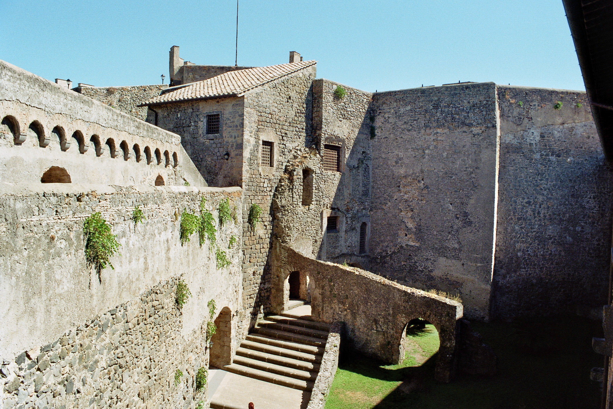 Orsini-Odescalchi Castle in Bracciano, Italy, from within